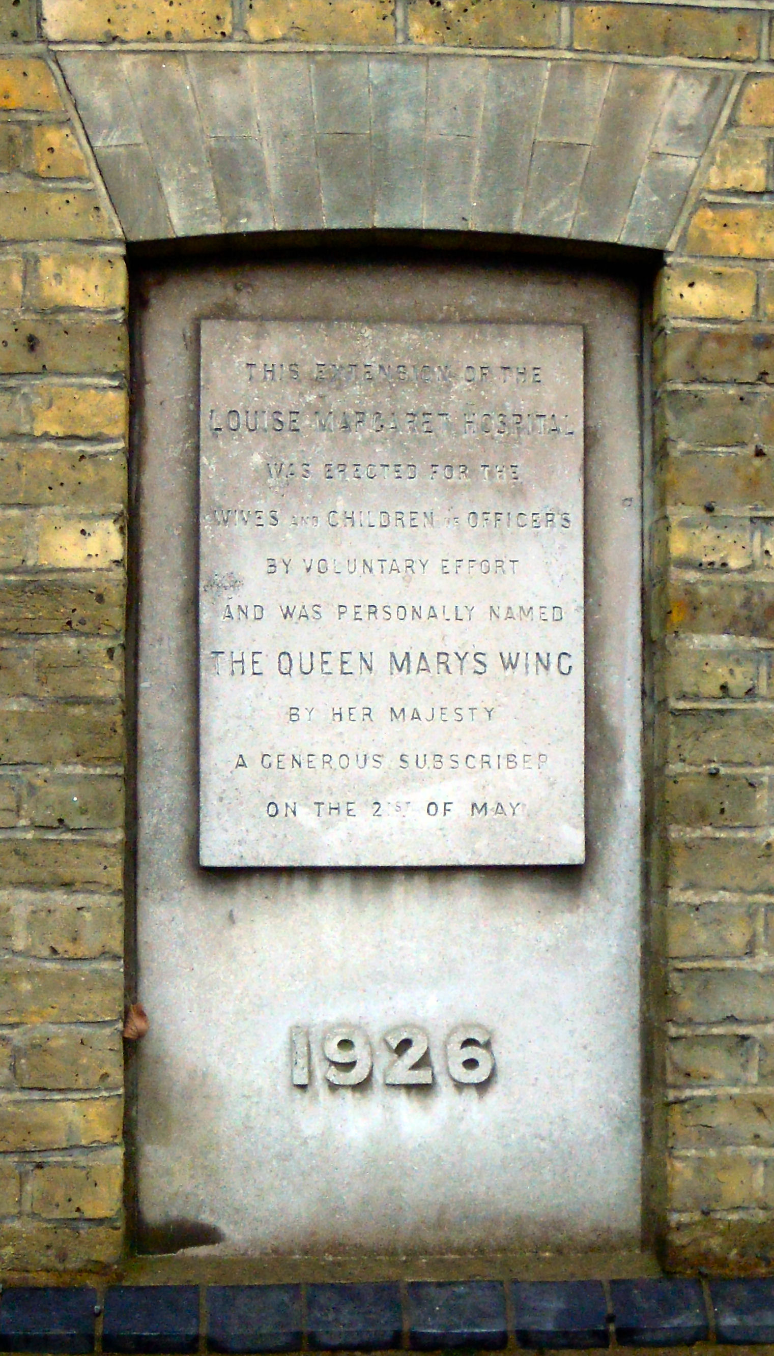 Plaque unveiled by Queen Mary at the Louise Margaret Hospital in Aldershot in Hampshire in 1926